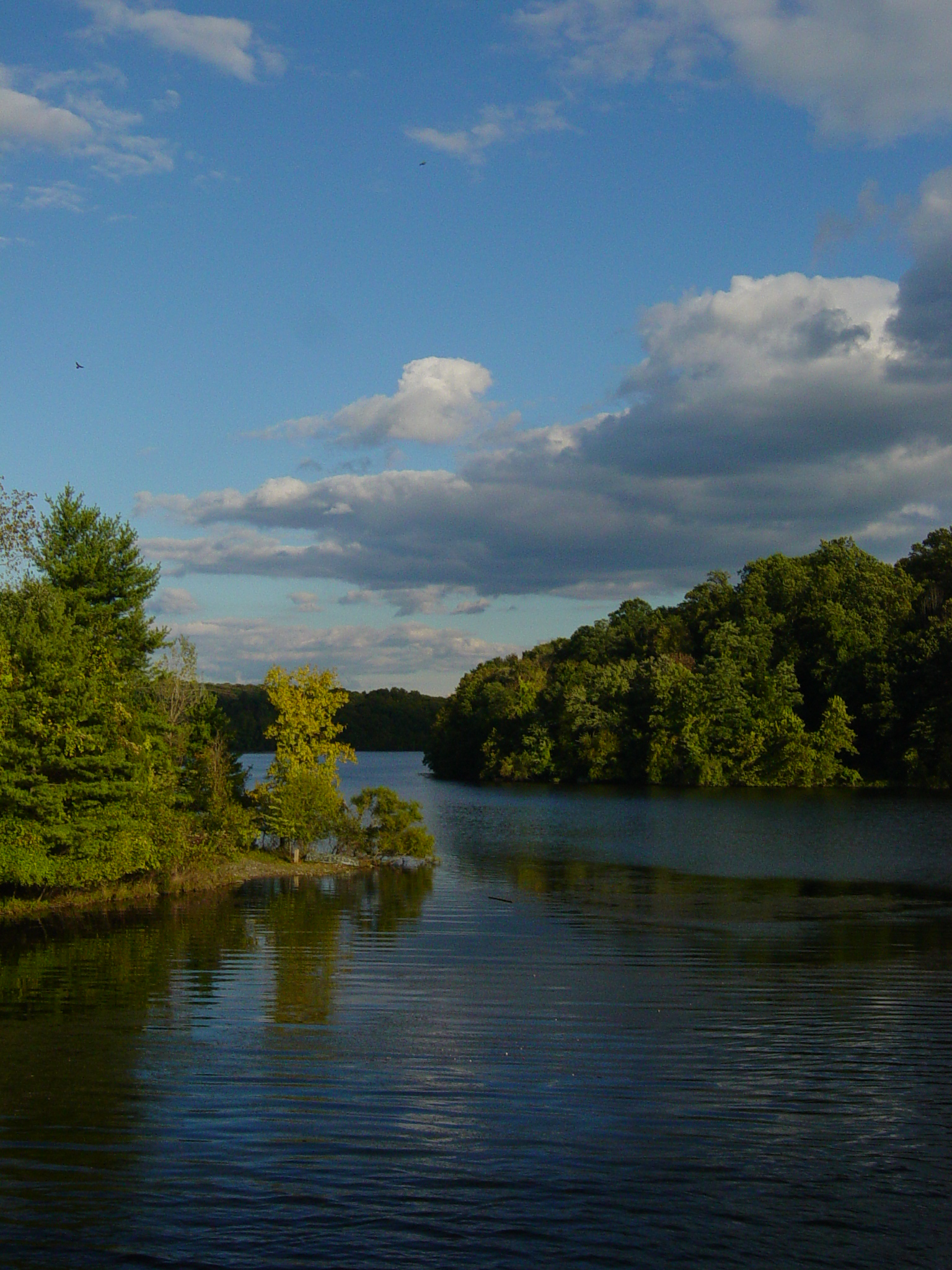 This is an image of the Croton Reservoir.